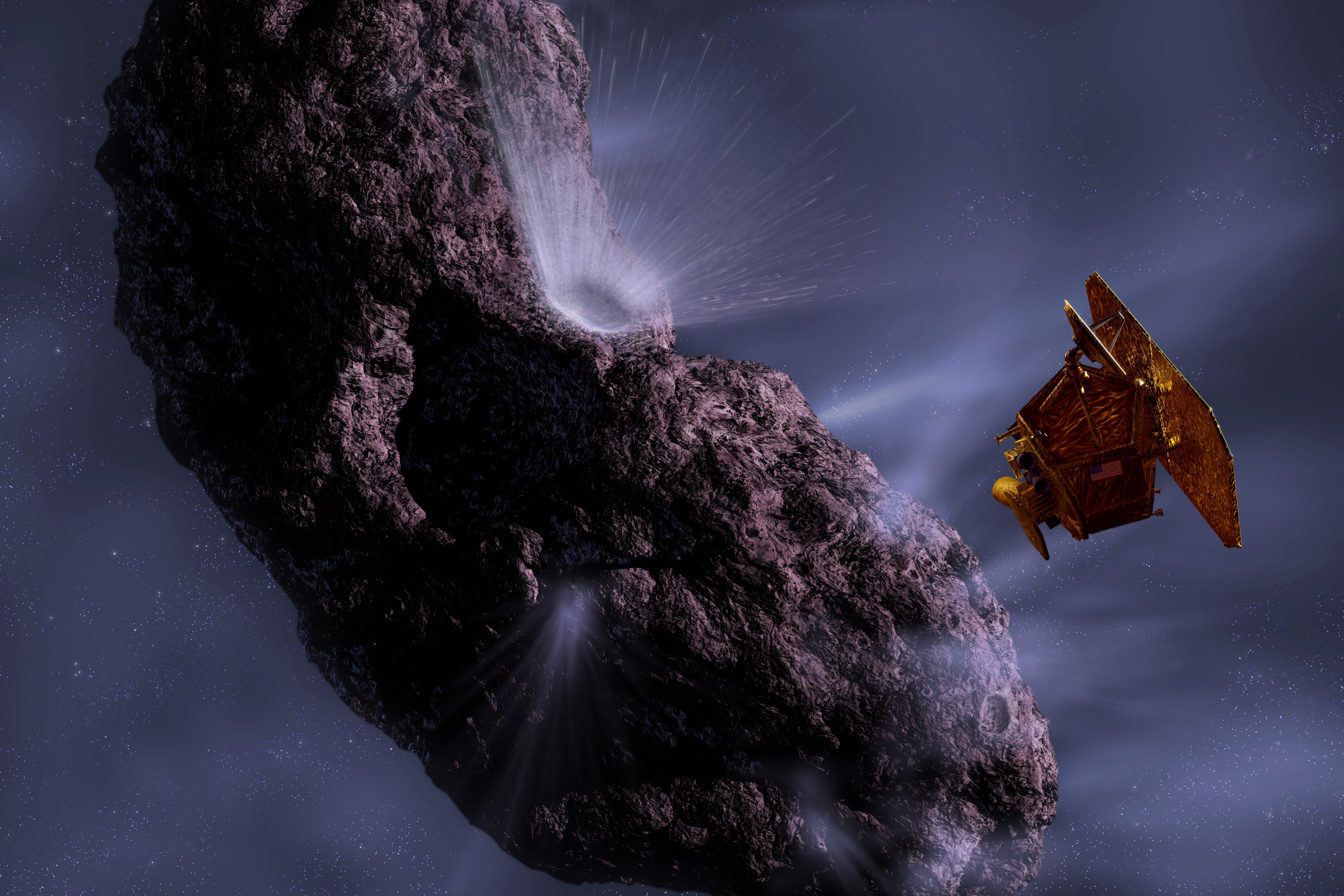 Artist's Concept of Deep Impact's Encounter with Comet Tempel 1. This artist's concept shows us the first time Deep Impact encountered a comet – Tempel 1 in July 2005. Deep Impact, now in an extended mission called EPOXI, will fly by its next comet, Hartley 2, on Nov. 4, 2010.